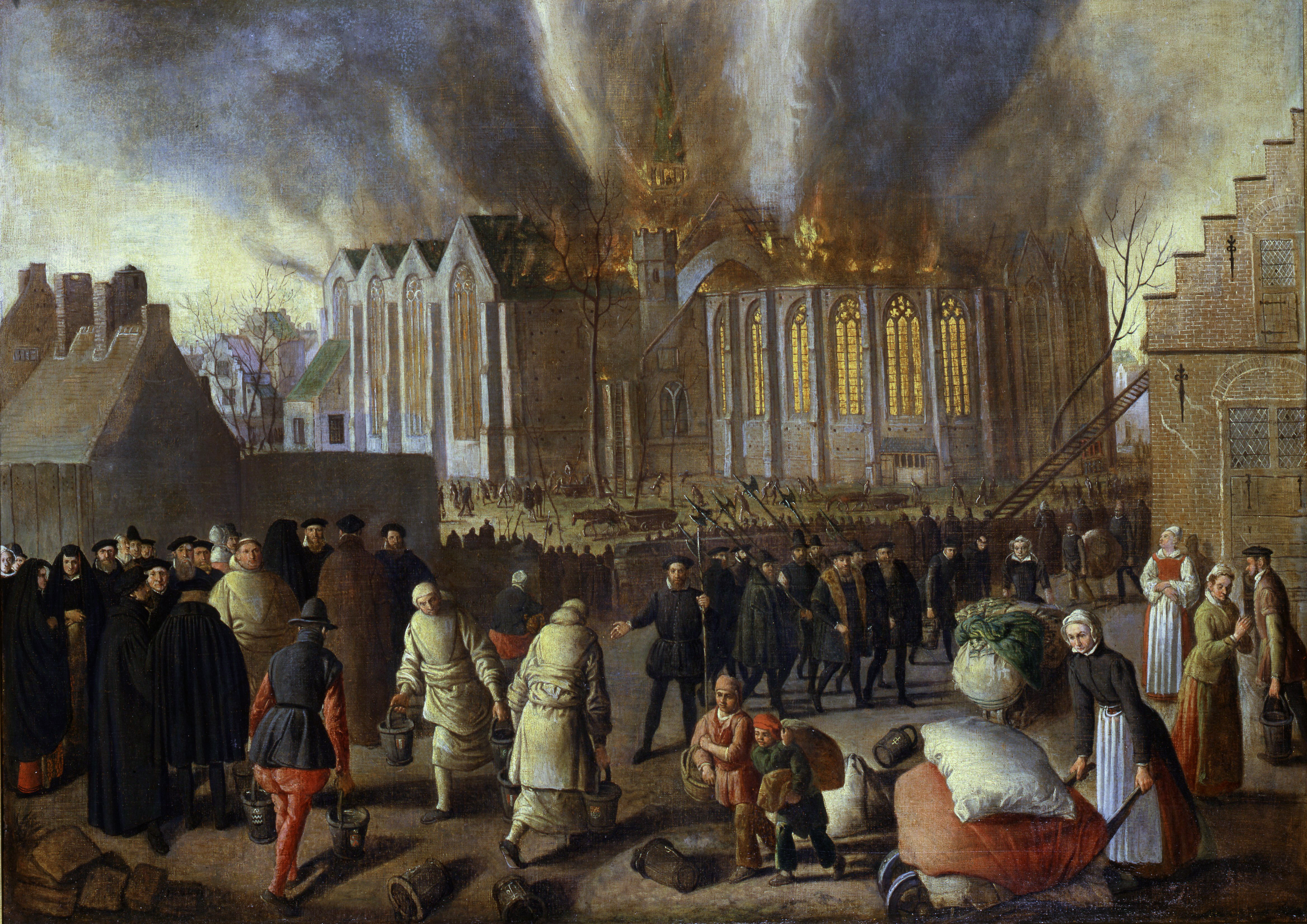 Nieuwkerk at Dordrecht on fire in 1568 oil on canvas 96.5 x 133.5 cm signed b.: J D signed verso: IAN DVDEYN A° 1568 inscribed on the frame: ' T WAS OP DACH NA AGNIETEN DACH VAN DAR IAER STAAT HIER GESCHREVEN / MEN DE NIEUW- KERKCK VERBRANDEN SACH WAS 'T VIER GROOT SAER STIIF VERHEVEN